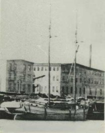 Schooner "Abbie" in port 1905